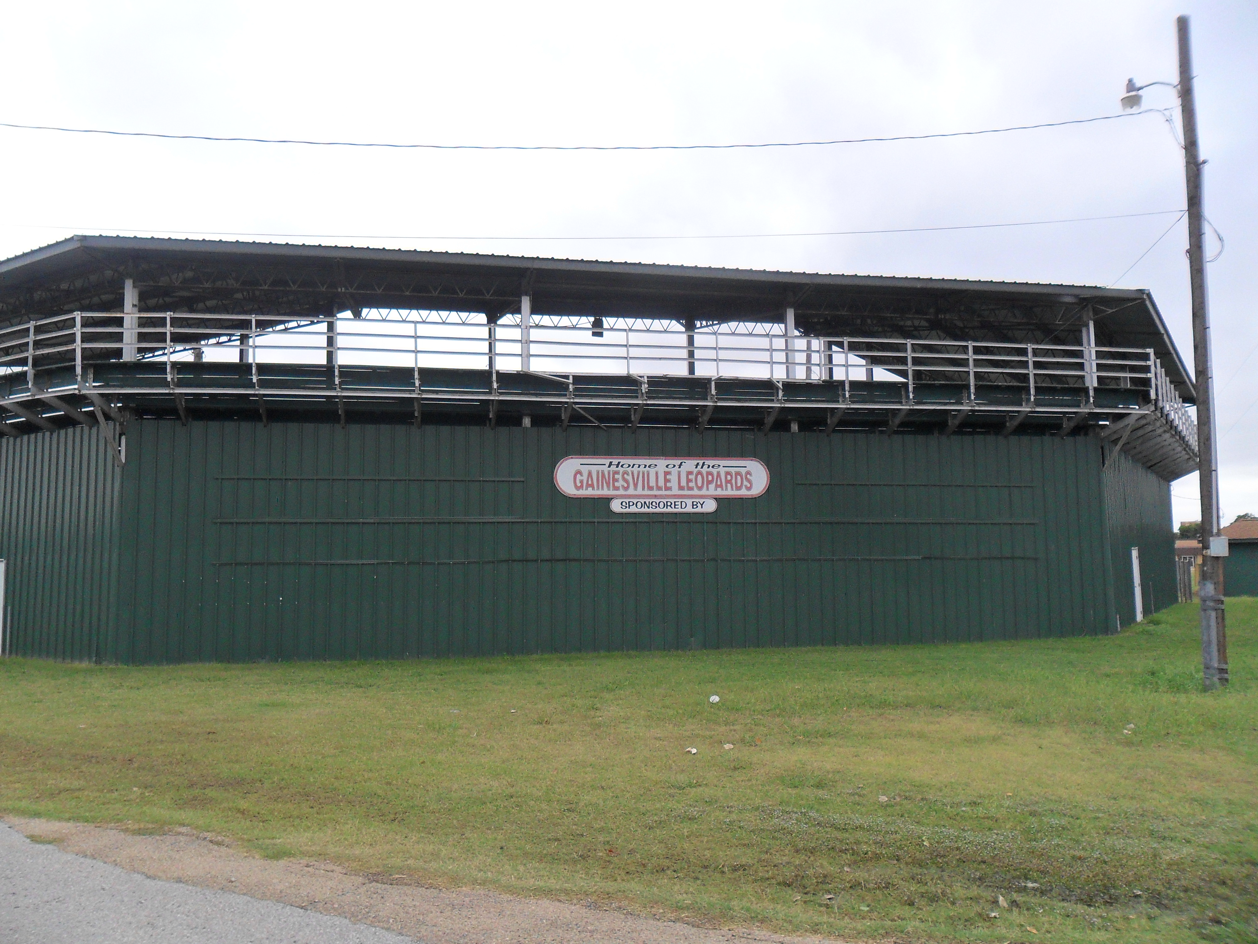 Locke Field, former home of the minor league baseball Gainesville Owls. Seen here in October of 2014, months before its demolition.